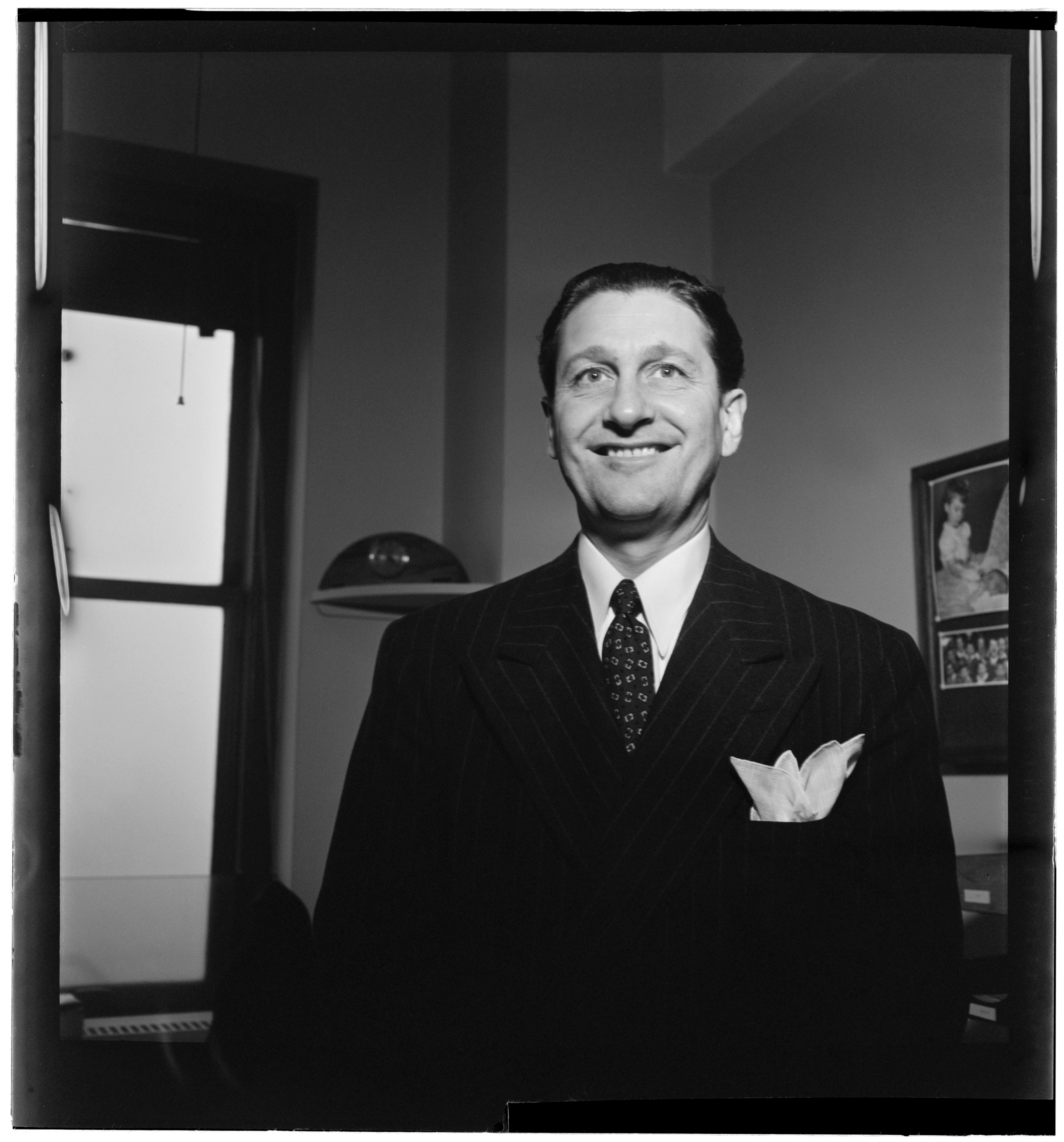 Gottlieb, William P., 1917-, photographer. [Portrait of Lawrence Welk, Down Beat office, New York, N.Y., between 1946 and 1948] 1 negative : b&w ; 2 1/4 x 2 1/4 in. Notes: Gottlieb Collection Assignment No. 332 Reference print available in Music Division, Library of Congress. Purchase William P. Gottlieb Forms part of: William P. Gottlieb Collection (Library of Congress). Subjects: Welk, Lawrence, 1903- Conductors (Music)--1940-1950. Accordionists--1940-1950. Format: Portrait photographs--1940-1950. Film negatives--1940-1950. Rights Info: Mr. Gottlieb has dedicated these works to the public domain, but rights of privacy and publicity may apply. Repository: (negative) Library of Congress, Prints & Photographs Division, Washington D.C. 20540 USA, (reference print) Library of Congress, Music Division, Washington D.C. 20540 USA, Part Of: William P. Gottlieb Collection (DLC) 99-401005 General information about the Gottlieb Collection is available at Persistent URL: Call Number: LC-GLB23- 0898 This work is from the William P. Gottlieb collection at the Library of Congress. Rights and restrictions.In accordance with the wishes of William Gottlieb, the photographs in this collection entered into the public domain on February 16, 2010.